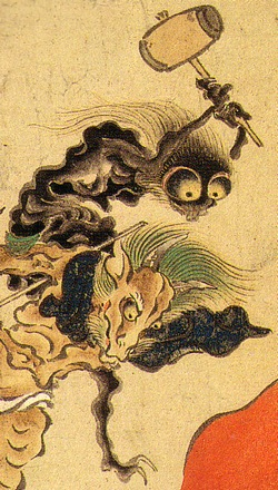 Ōari raising a wooden hammer (木槌を振り上げる大蟻の妖怪, The ghost of a giant ant) from the Hyakki-Yagyō-Emaki (百鬼夜行絵巻)